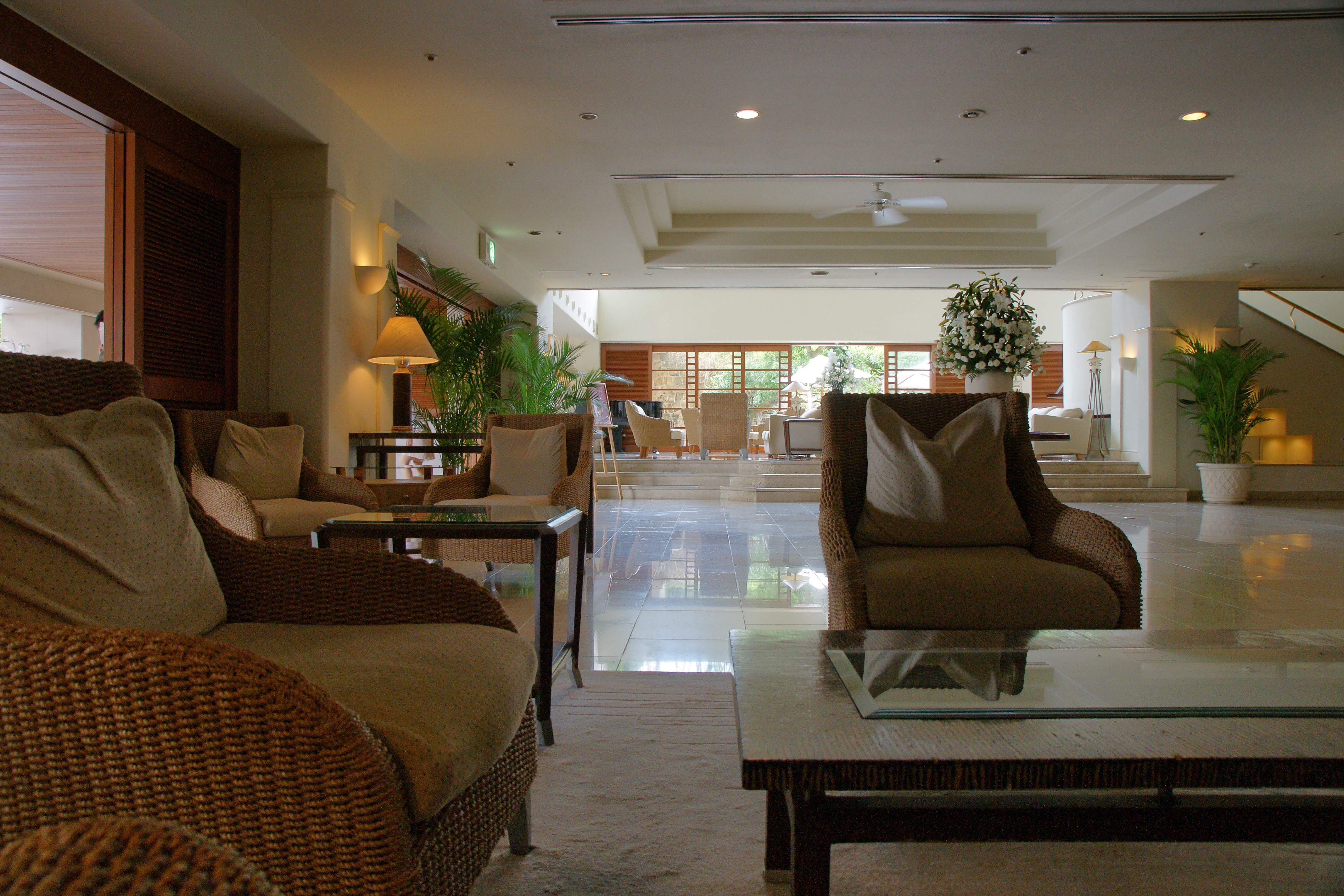 The Naha Terrace, Naha, Okinawa prefecture, Japan